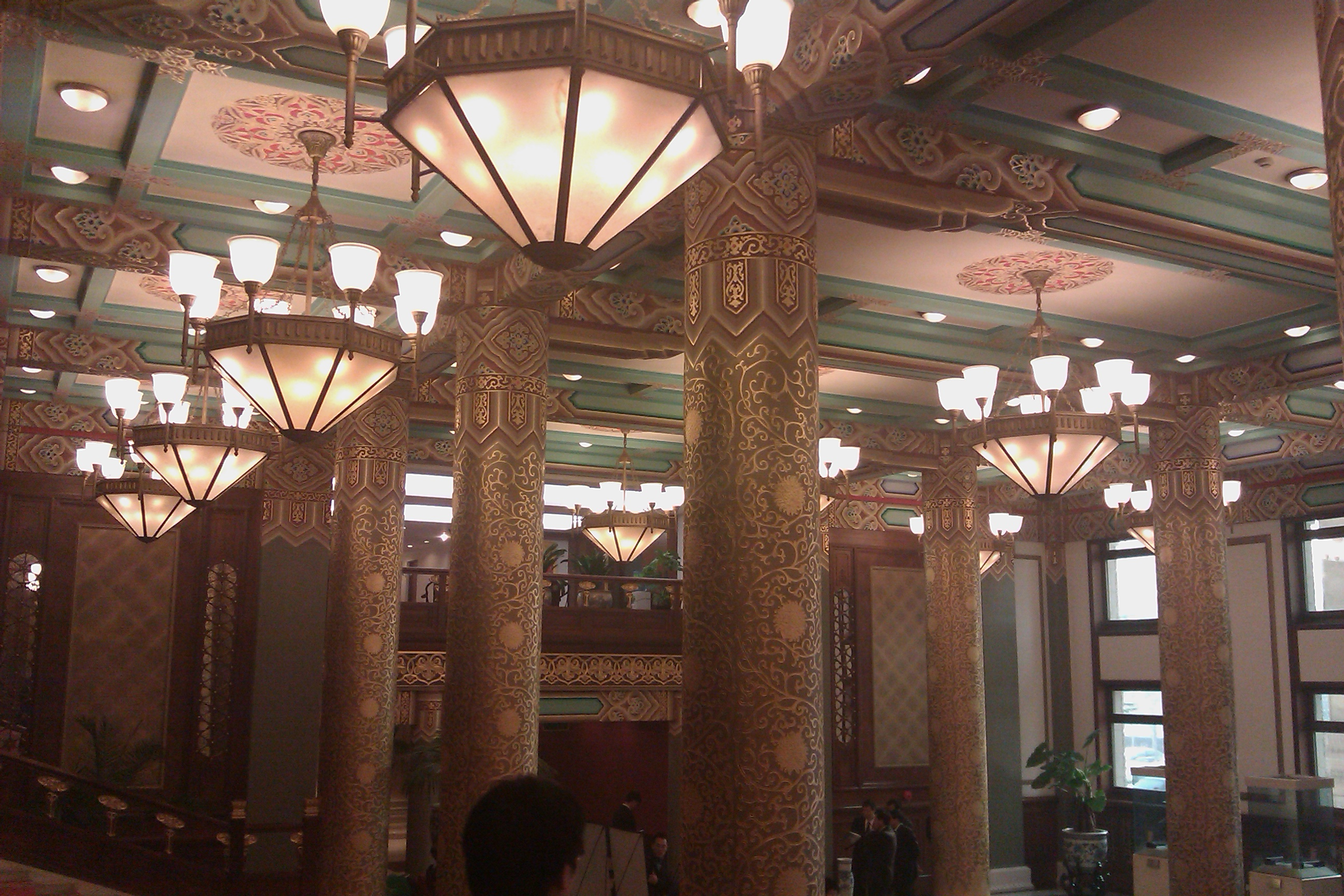 Interior decoration of the Beijing Hotel